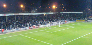 The Meadow End before the Leeds FA Cup match